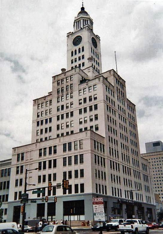 The Philadelphia Inquirer-Daily News Building in Philadelphia, PA. Taken from North Broad and Callowhill Streets.